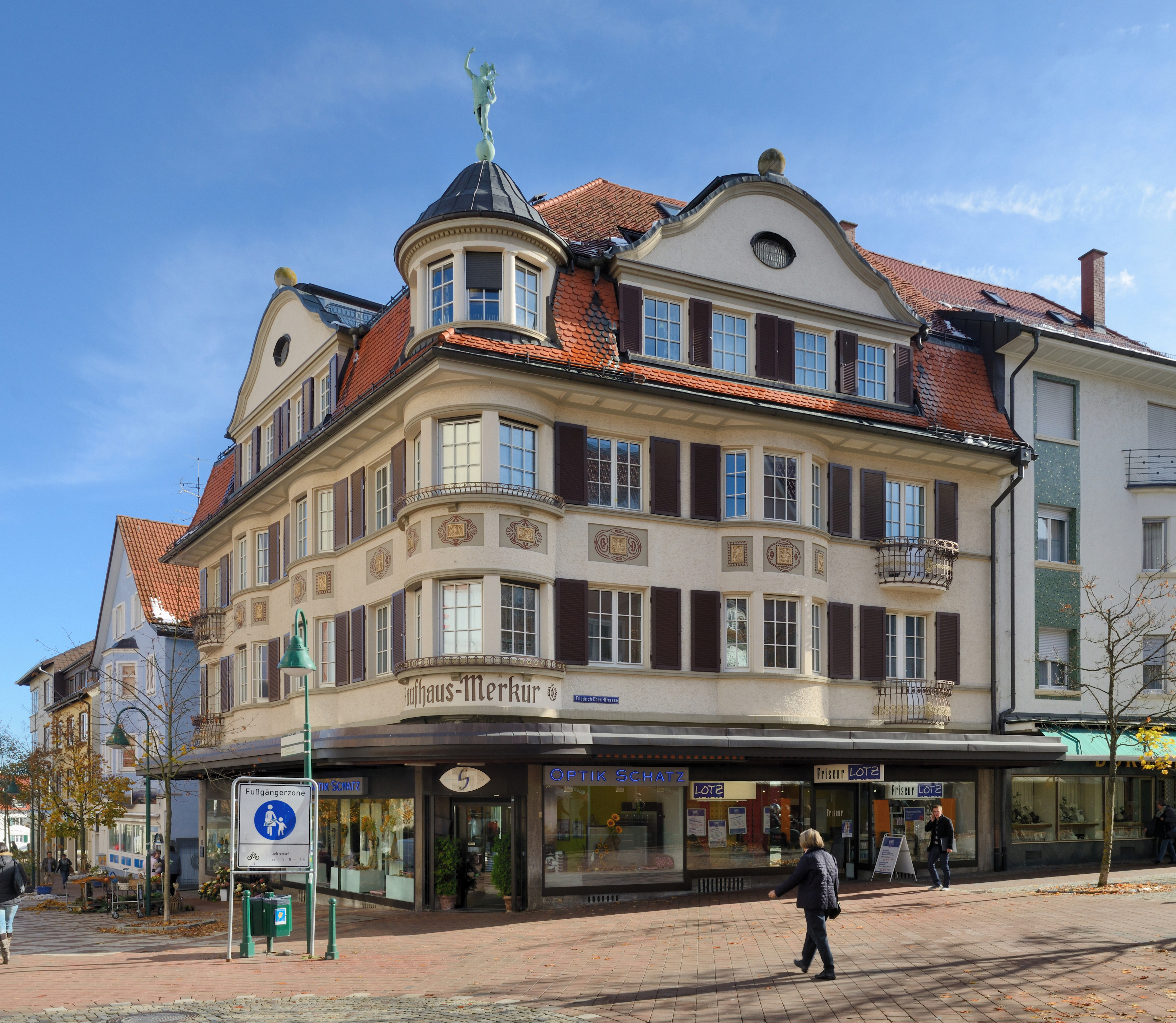 Schwenningen: department store "Merkur"